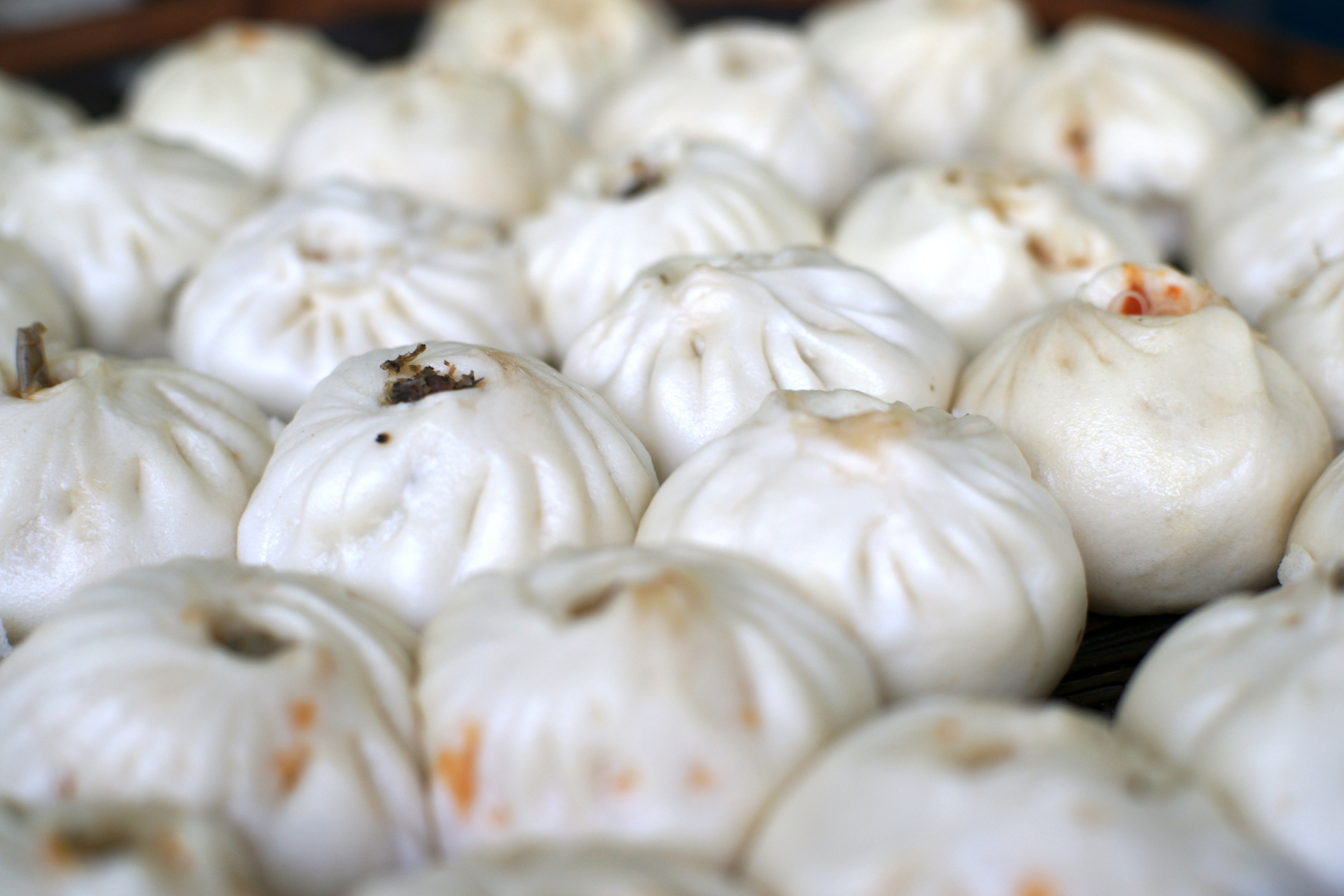 A bunch of baozi, chinese buns filled with meat and/or vegetables